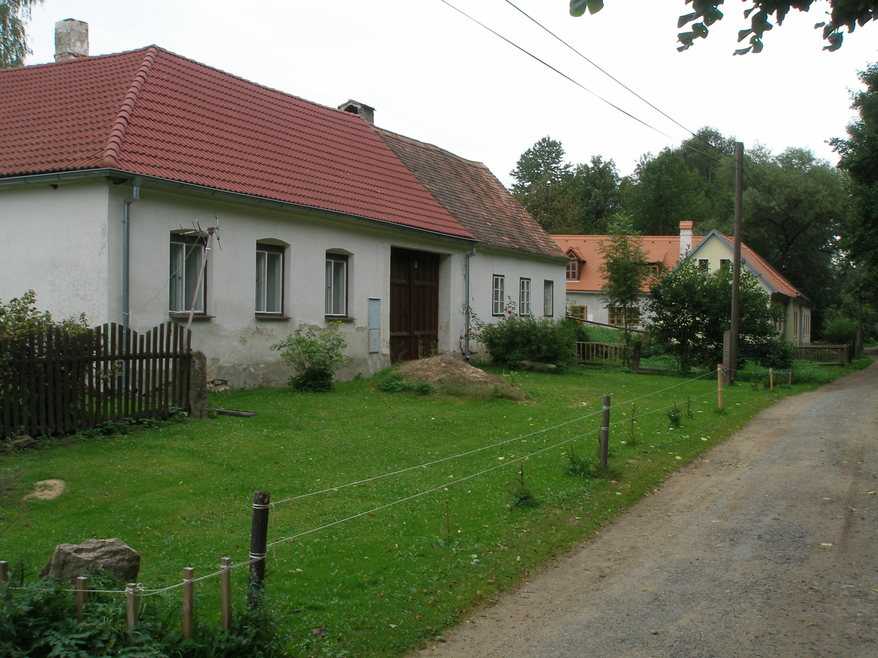 Part of the Northern sine of the square in Maříž